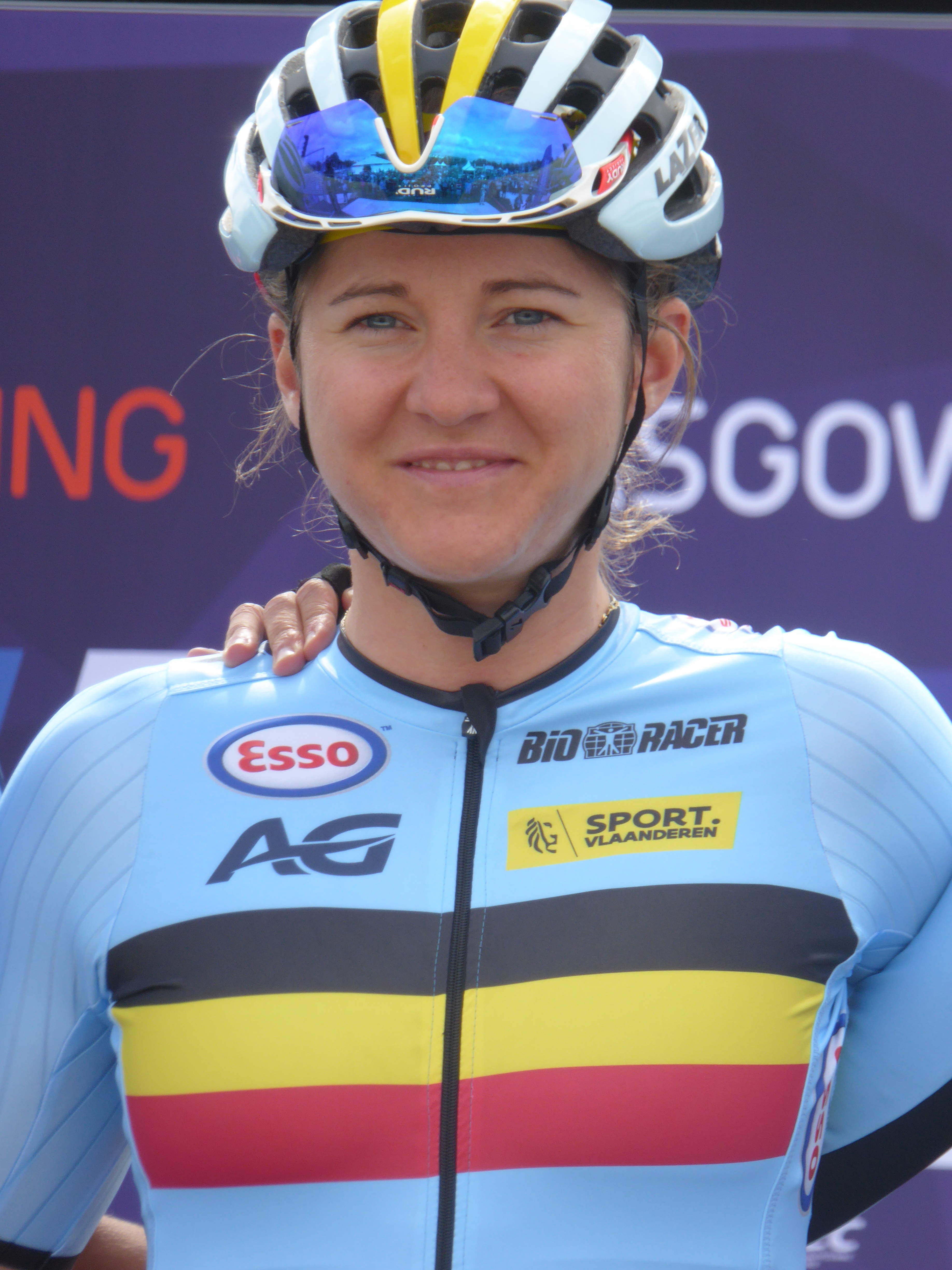 Valerie Demey (Belgium), prior to the women's road race at the 2018 UEC European Road Cycling Championships in Glasgow.